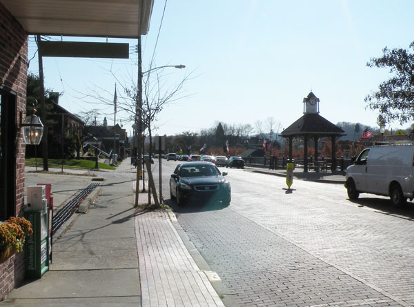 Picture of Allegheny River Boulevard in Oakmont, Pennsylvania, on November 7, 2009.